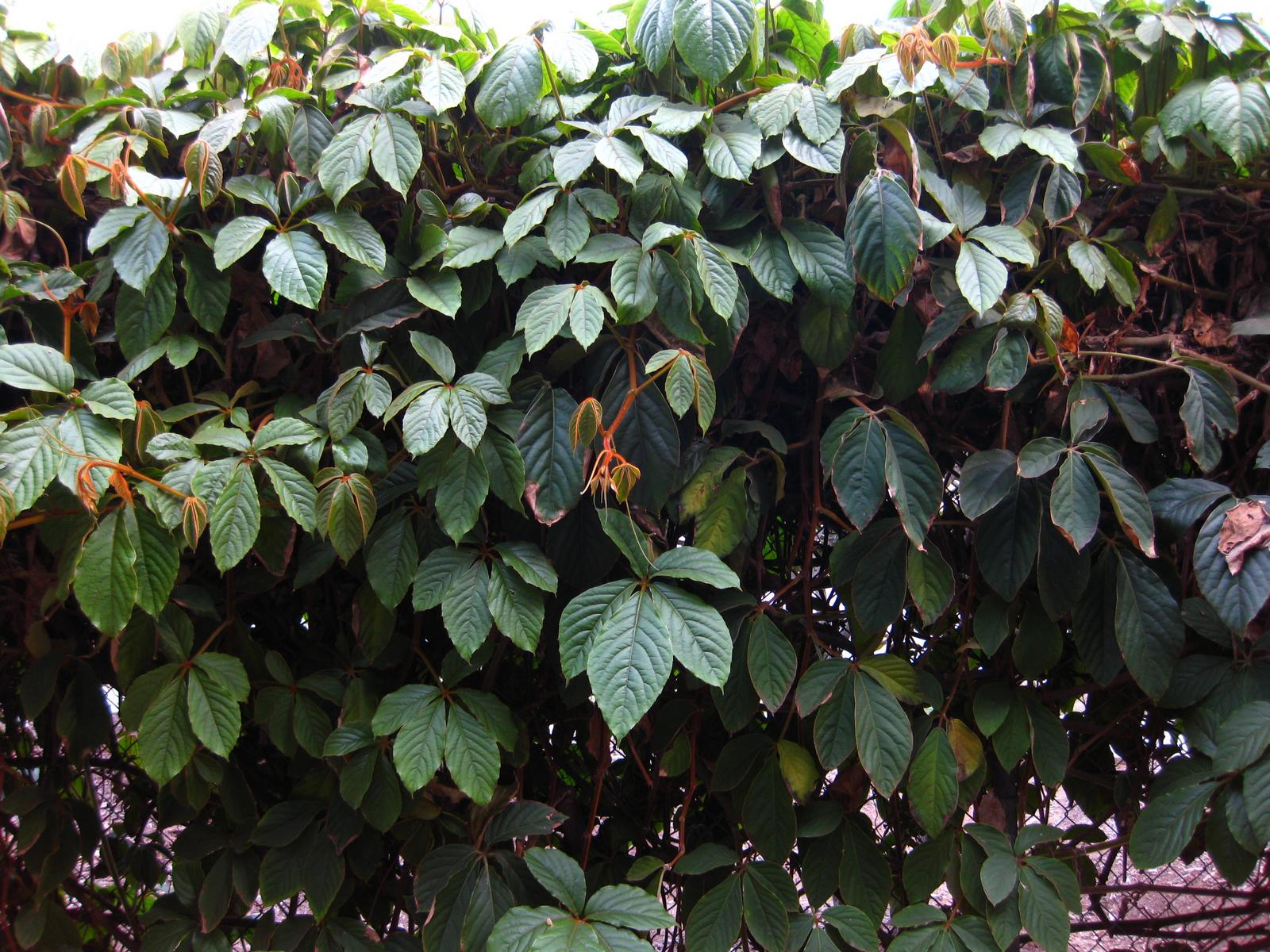 Vine. Photographed at Mildred E. Mathias Botanical Garden at UCLA, Westwood, (Los Angeles, California) - in November.